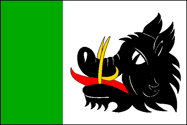 Municipal flag of Vísky village, Rokycany District, Czech Republic.